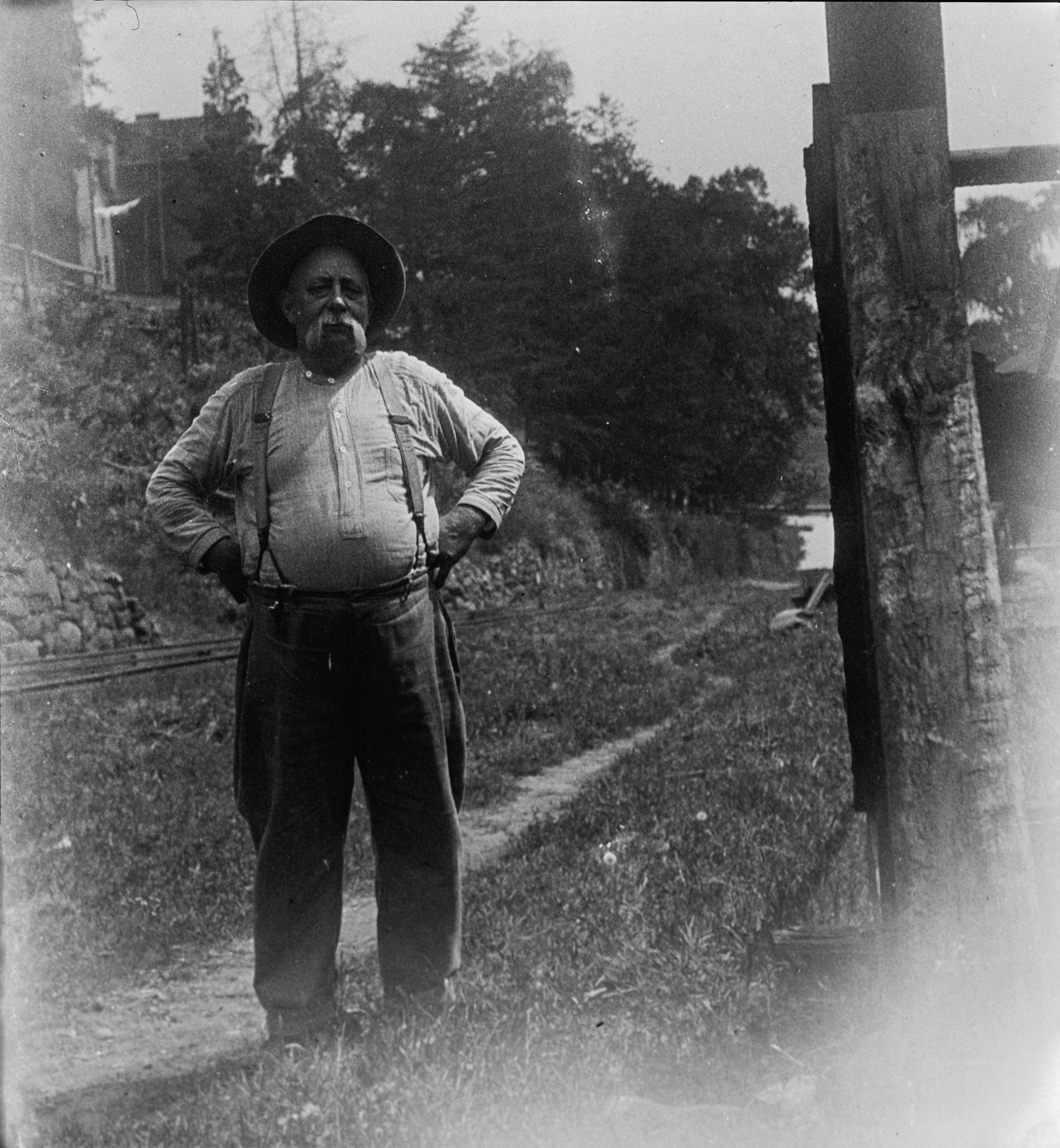 Canal Tender (of an inclined plane, so he's not a lock tender) at Plane 7 East on Morris Canal. Inclined plane 7 East can be seen behind him. HABS says: 87. CANAL TENDER AT PLANE 7 EAST. - Morris Canal, Phillipsburg, Warren County, NJ